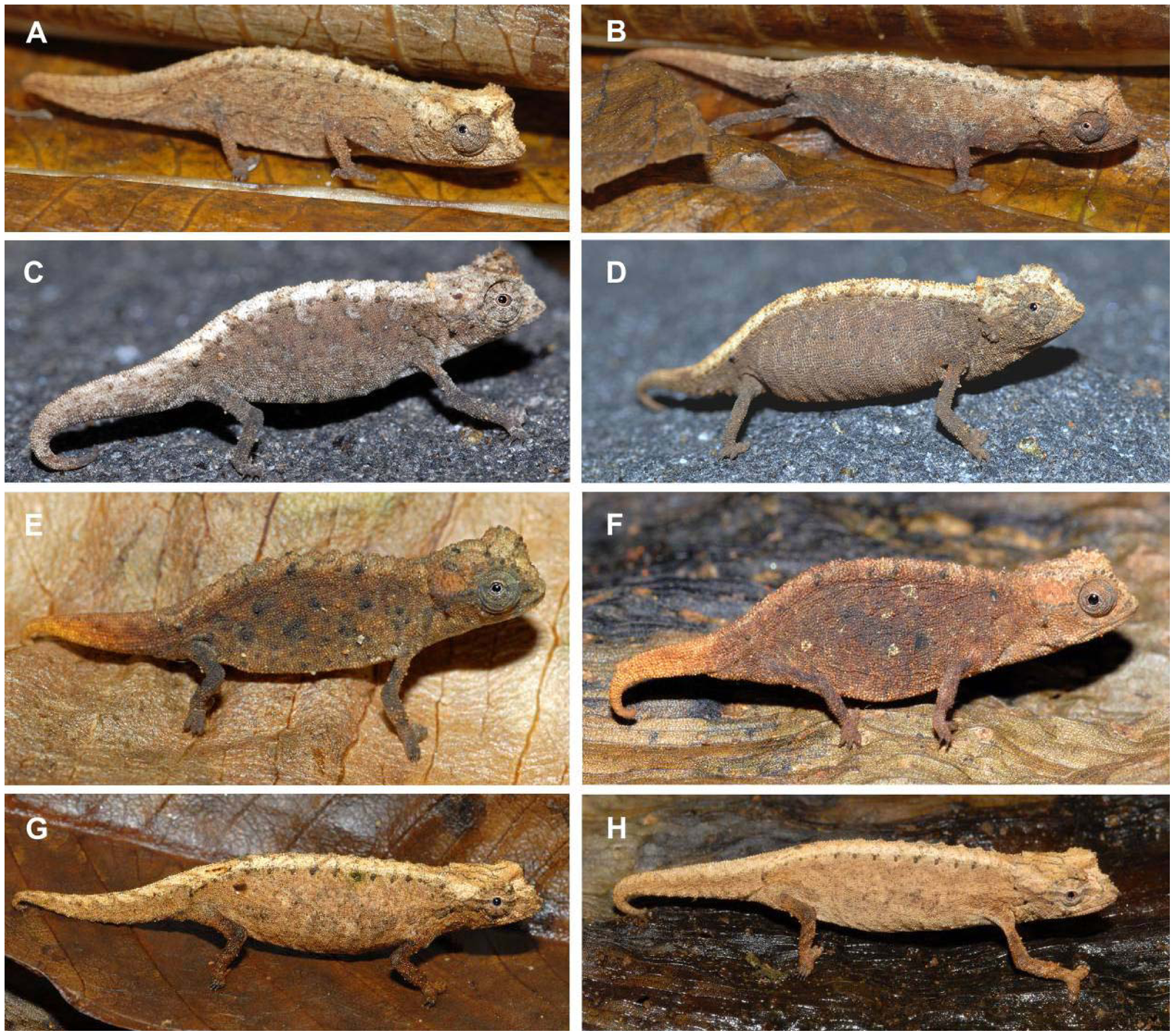 Adult specimens of newly described species in life. (A) male and (B) female of Brookesia tristis from Montagne des Français; (C) male and (D) female of Brookesia confidens from Ankarana; (E) male and (F) female of Brookesia micra from Nosy Hara; (G) male and (H) female Brookesia desperata from Forêt d'Ambre.